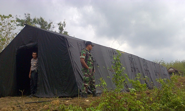 Platoon tent posts were used by officials to see the situation